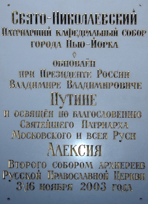 St. Nicholas Russian Orthodox Cathedral. Memorial plaque 2